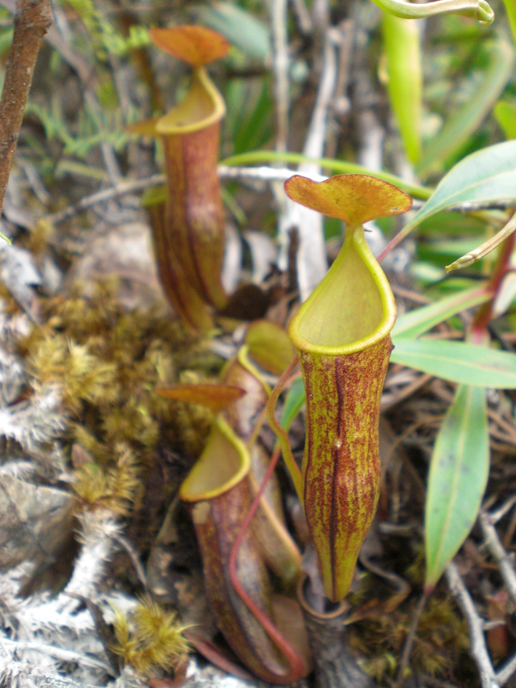 Nepenthes micramphora (endemic Pitcher plant). Found in Mount Hamiguitan Range, San Isidro, Davao Oriental Province, Mindanao region in the southern Philippines. Taken from Nov 29-Dec 1, 2009.